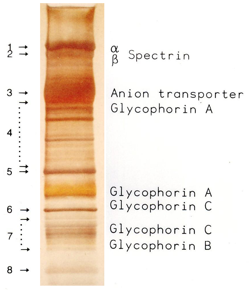 SDS PAGE of the major proteins found in the erythrocyte membrane.